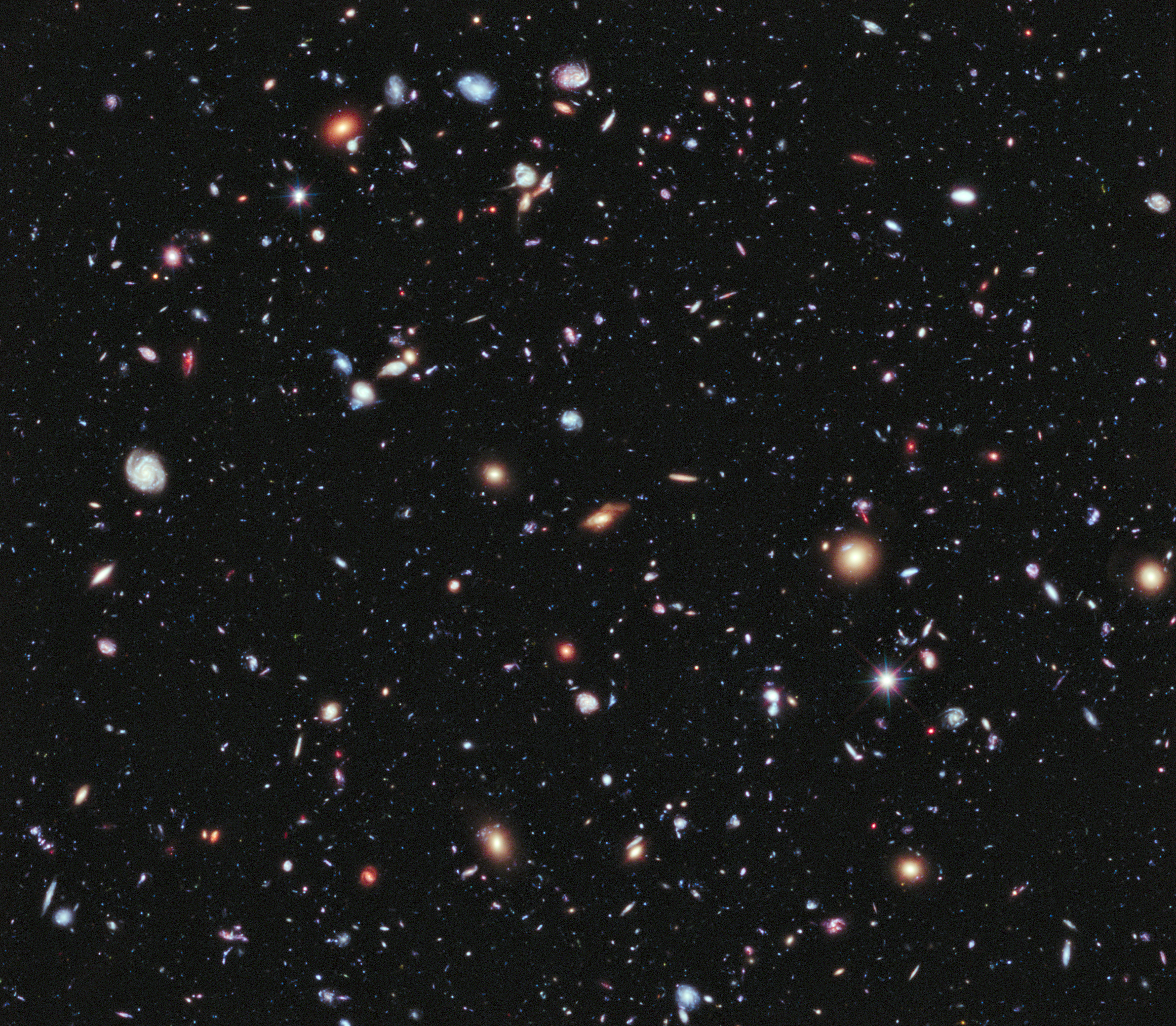 Hubble Extreme Deep Field image (full resolution). Exposure dates: July 2002 to March 2012[3], with main contributions from 2002–2003 (visible) and 2009 (infrared)[4]. Image released by NASA on September 25th, 2012.